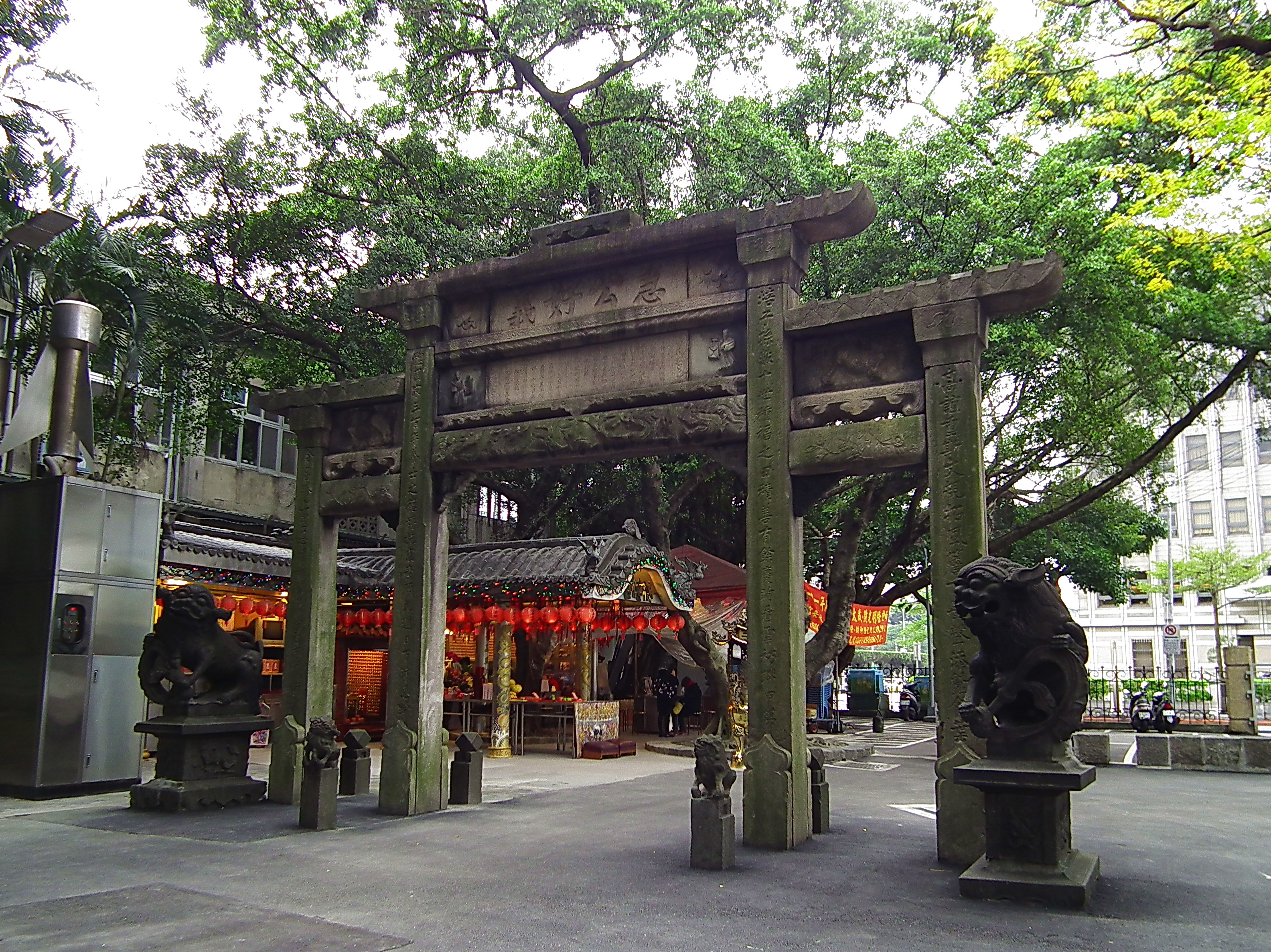 急公好義坊 Hong Tengyun Memorial Arch